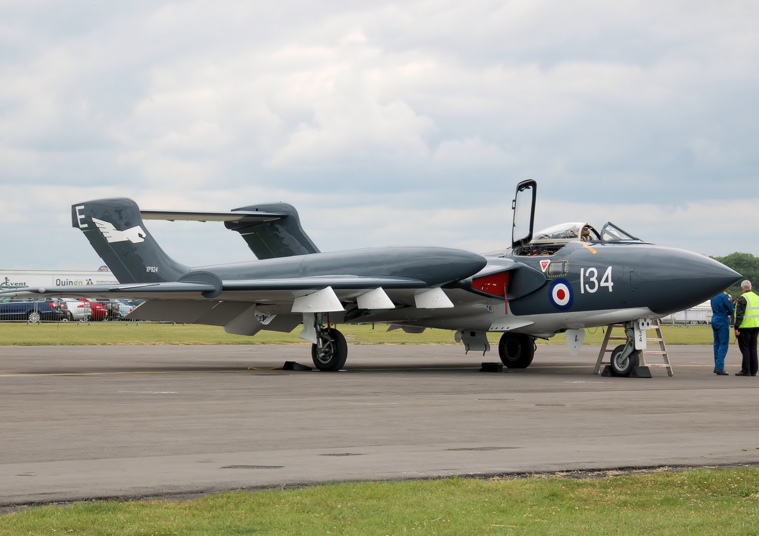 de Havilland dH-110 Sea Vixen D3, formerly of the Royal Navy as XP924, now on the UK Civil Register as G-CVIX, is maintained by De Havilland Aviation Ltd. at Bournemouth Airport, Dorset, England. The aircraft was in Red Bull advertising markings but has been repainted in its Royal Navy Fleet Air Arm markings. XP924 entered service with the Royal Navy in 1964 as an FAW.2 model. It ended its flying in 1991 as a trainer for teaching pilots to fly aircraft by remote control from the ground (for use as missile targets).